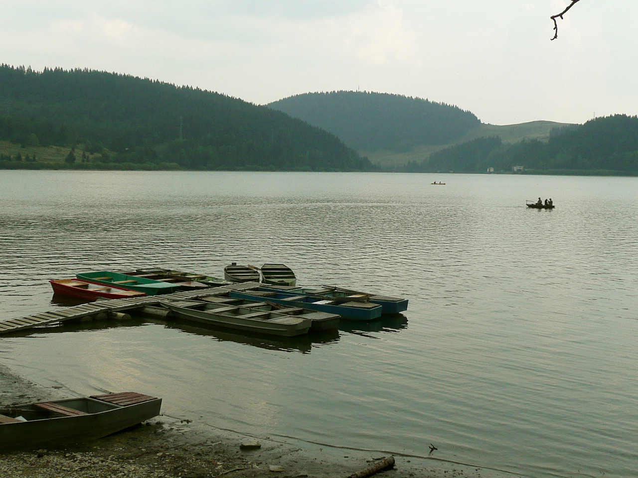 Evening fishing scene in the Dedinky lake, Slovak Paradise, Roznava District